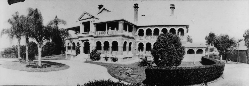 Drysllwyn homestead, now known as Raymont Lodge, Auchenflower, 1944